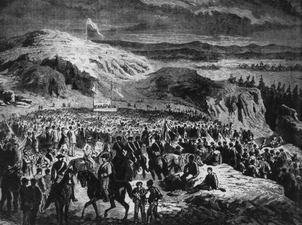 Rally on the Mužský hill, Bohemia, 1869